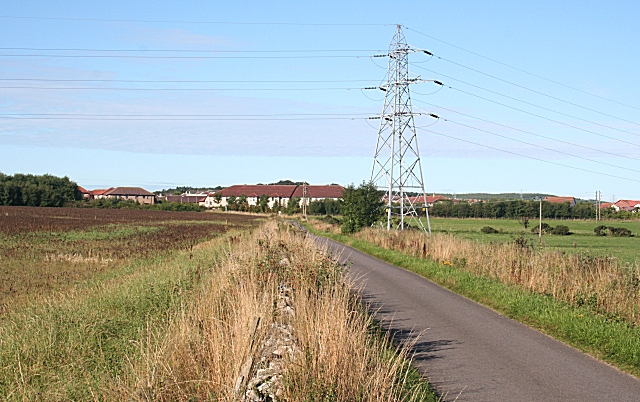 Linksfield. The road into Bishopmill from Linksfield.